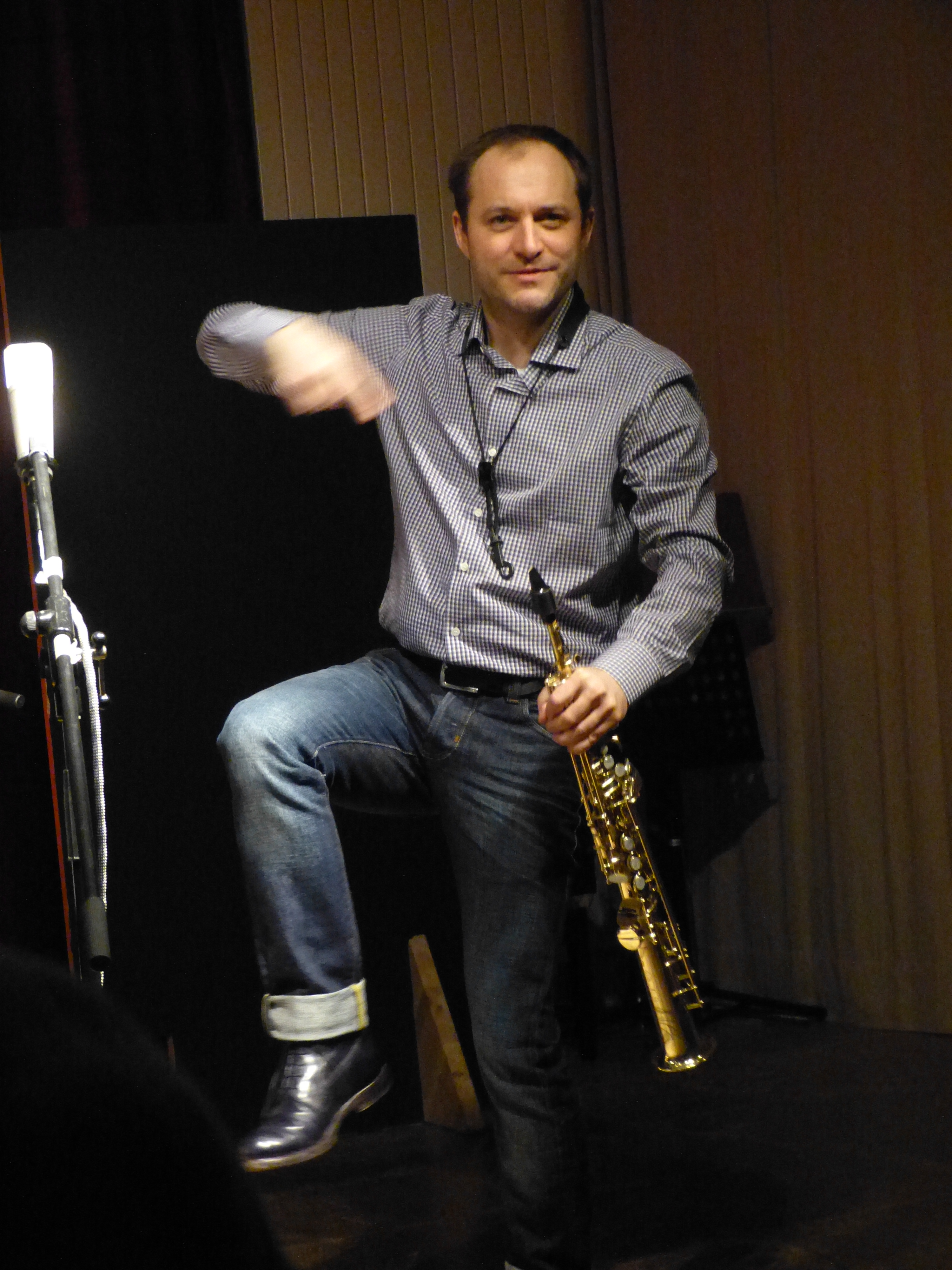 Jürg Wickihalder in concert with Irene Schweizer at Loft (Cologne), Germany, February 7th, 2014